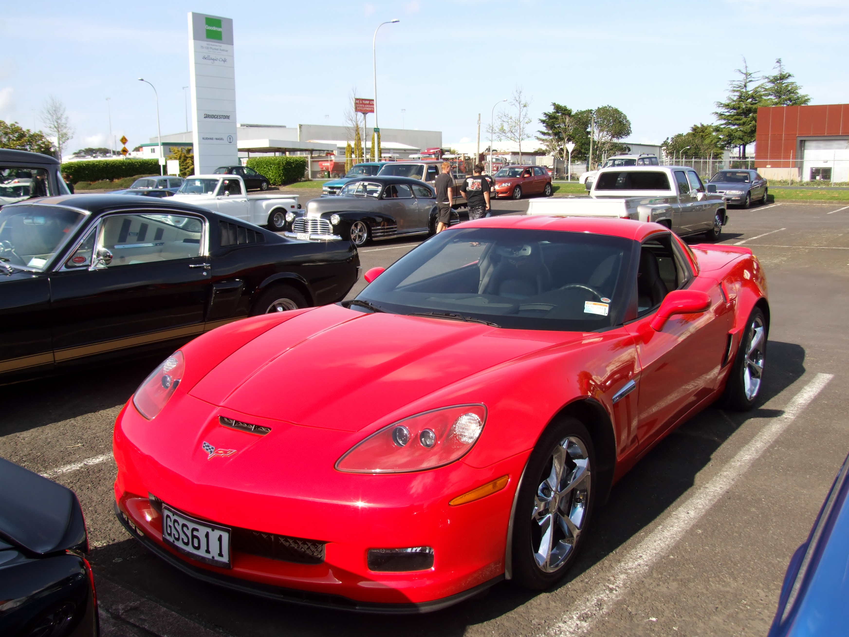 2010 Corvette Grand Sport